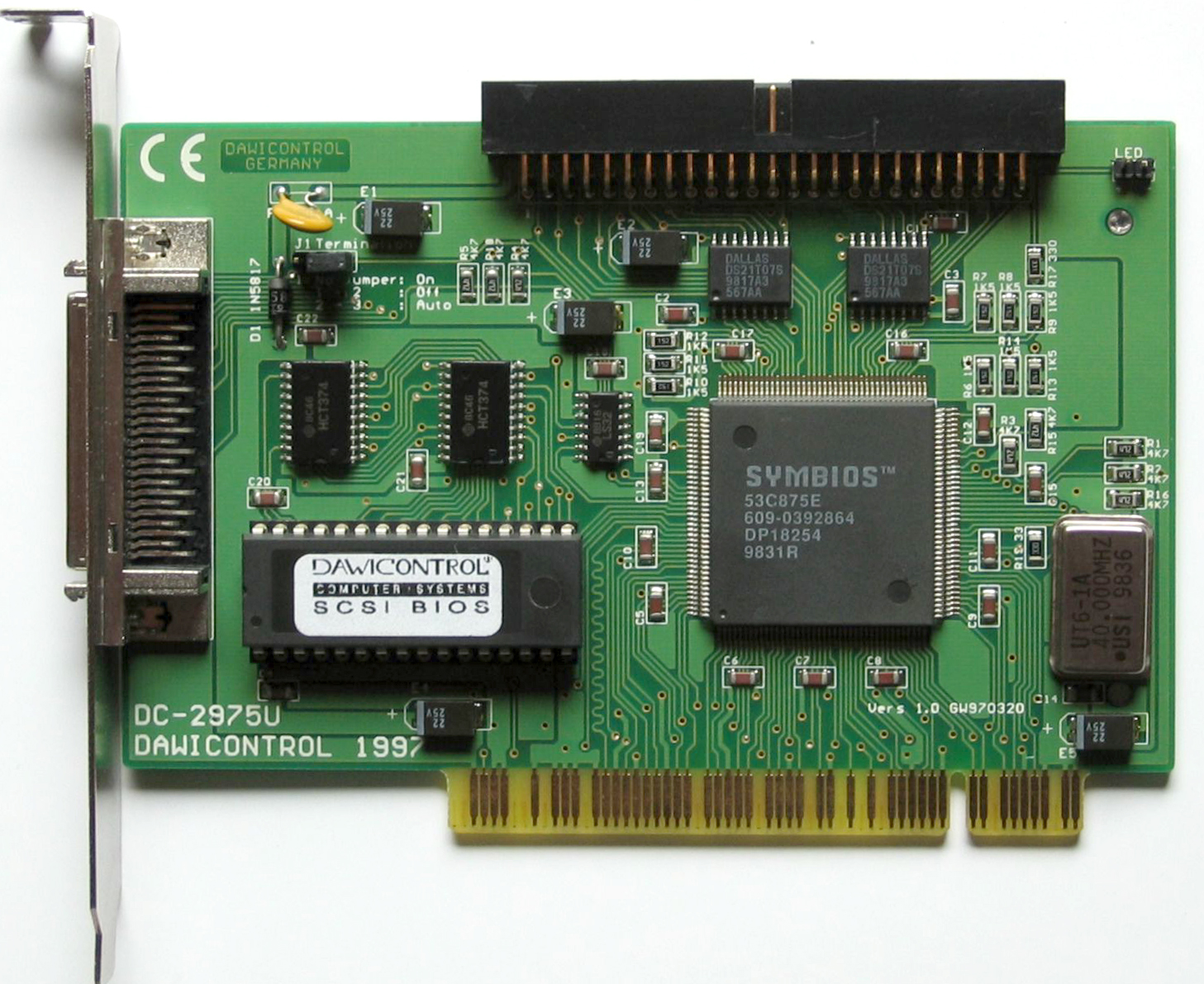 Dawicontrol DC-2975U